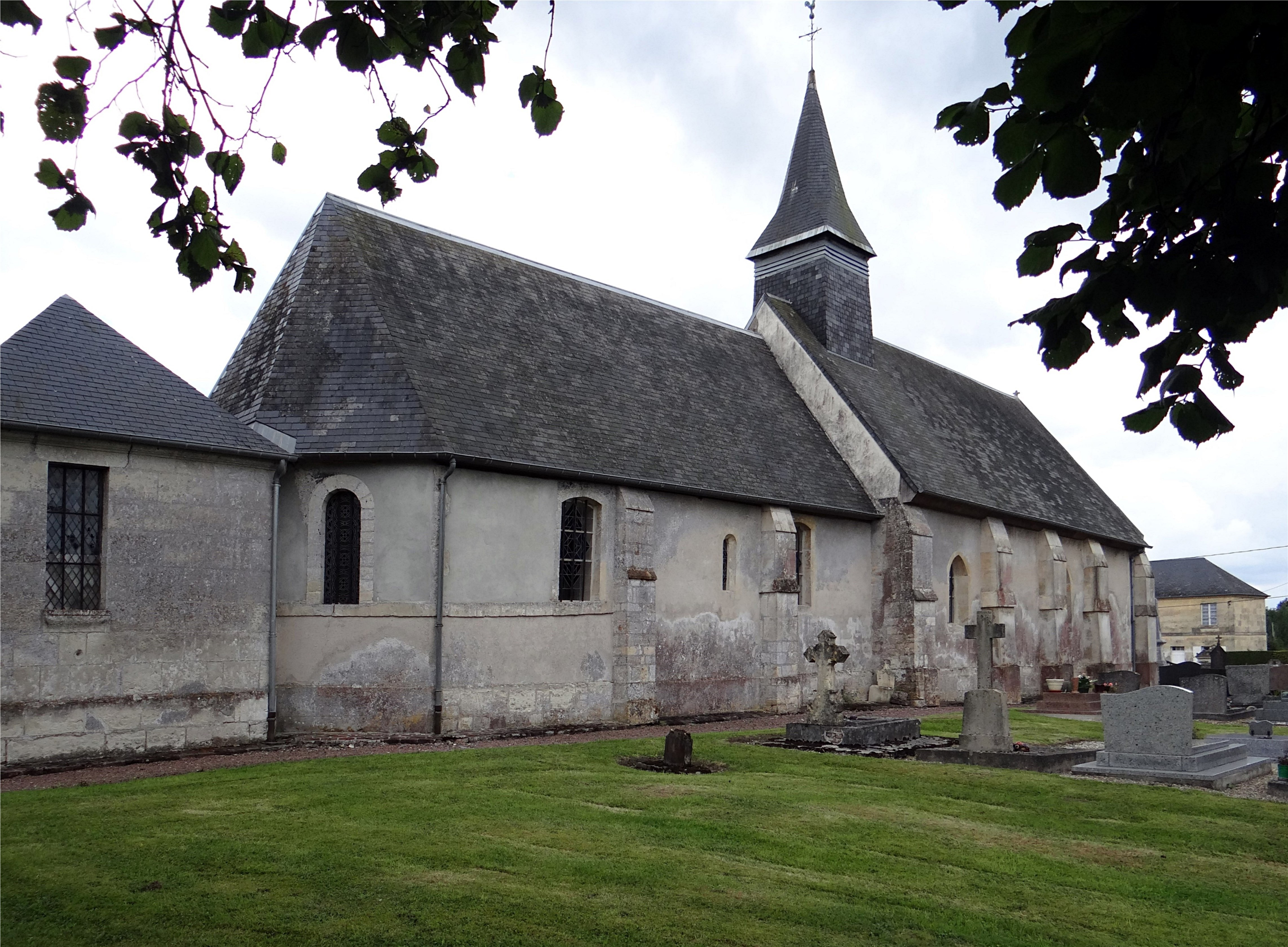 Church of St. Barbara, St. Jouin, Calvados, France.